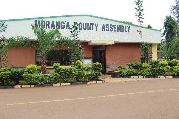 The new Muran'a county offices